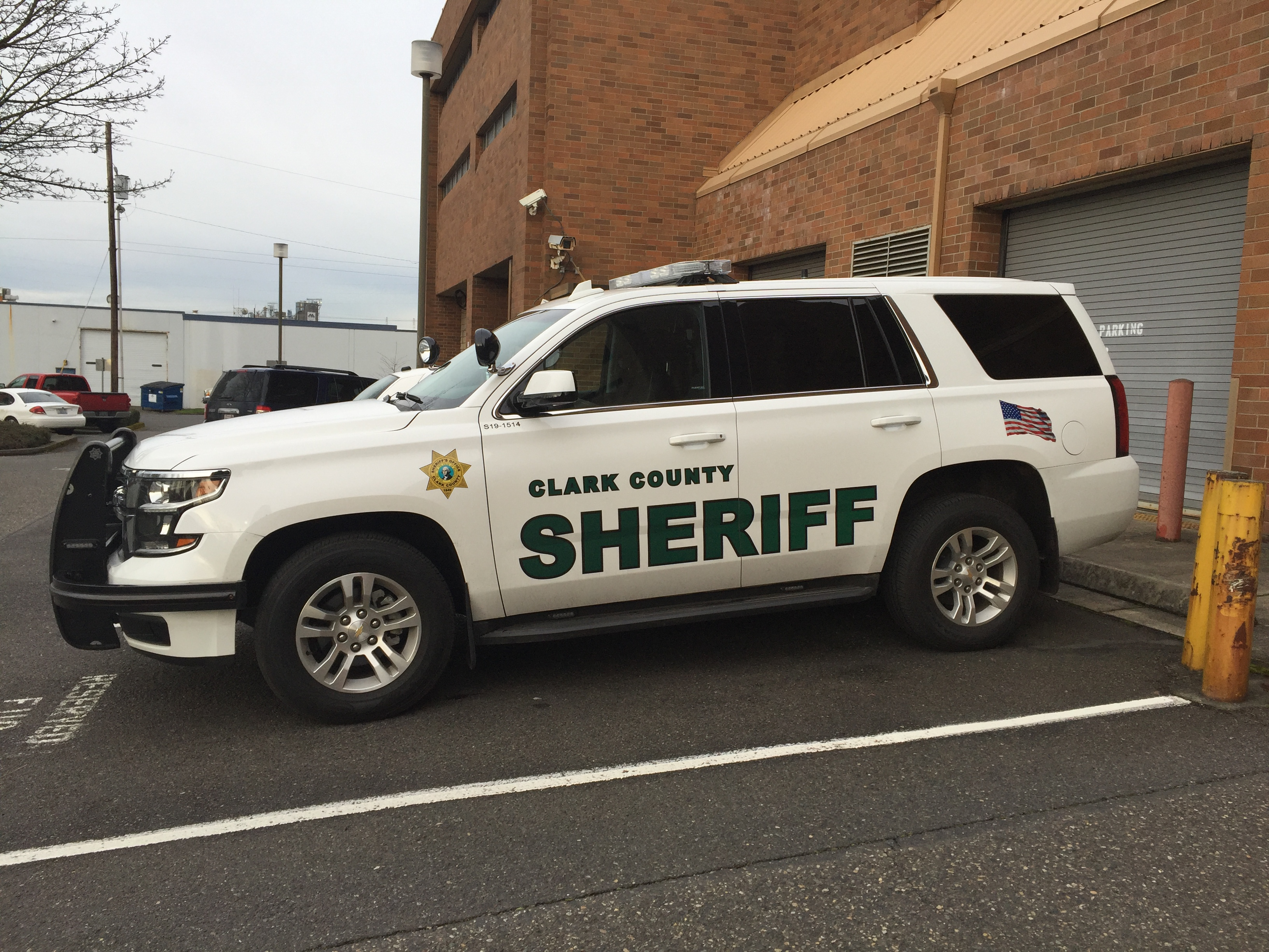 CCSO Chevy Tahoe Patrol Car